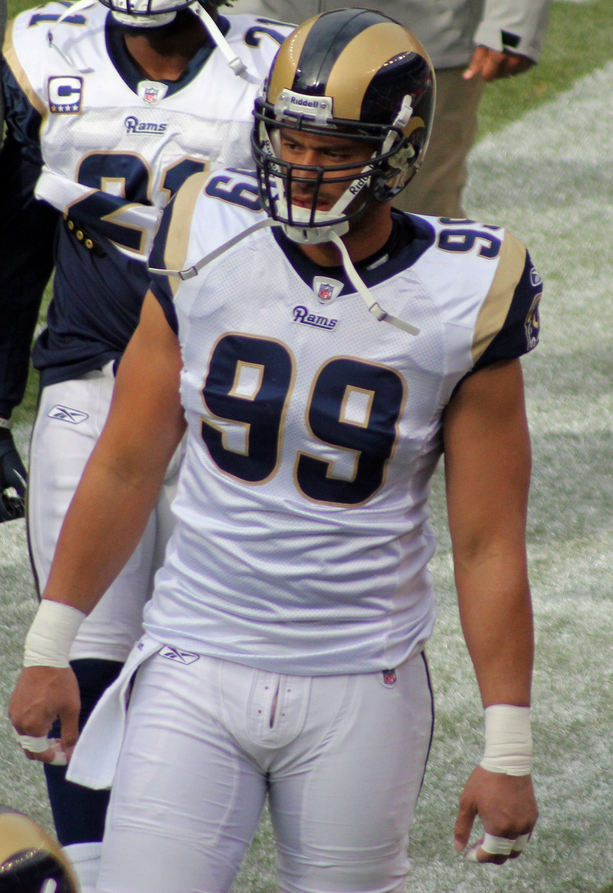 C.J. Ah You, a player on the Saint Louis Rams American football team.